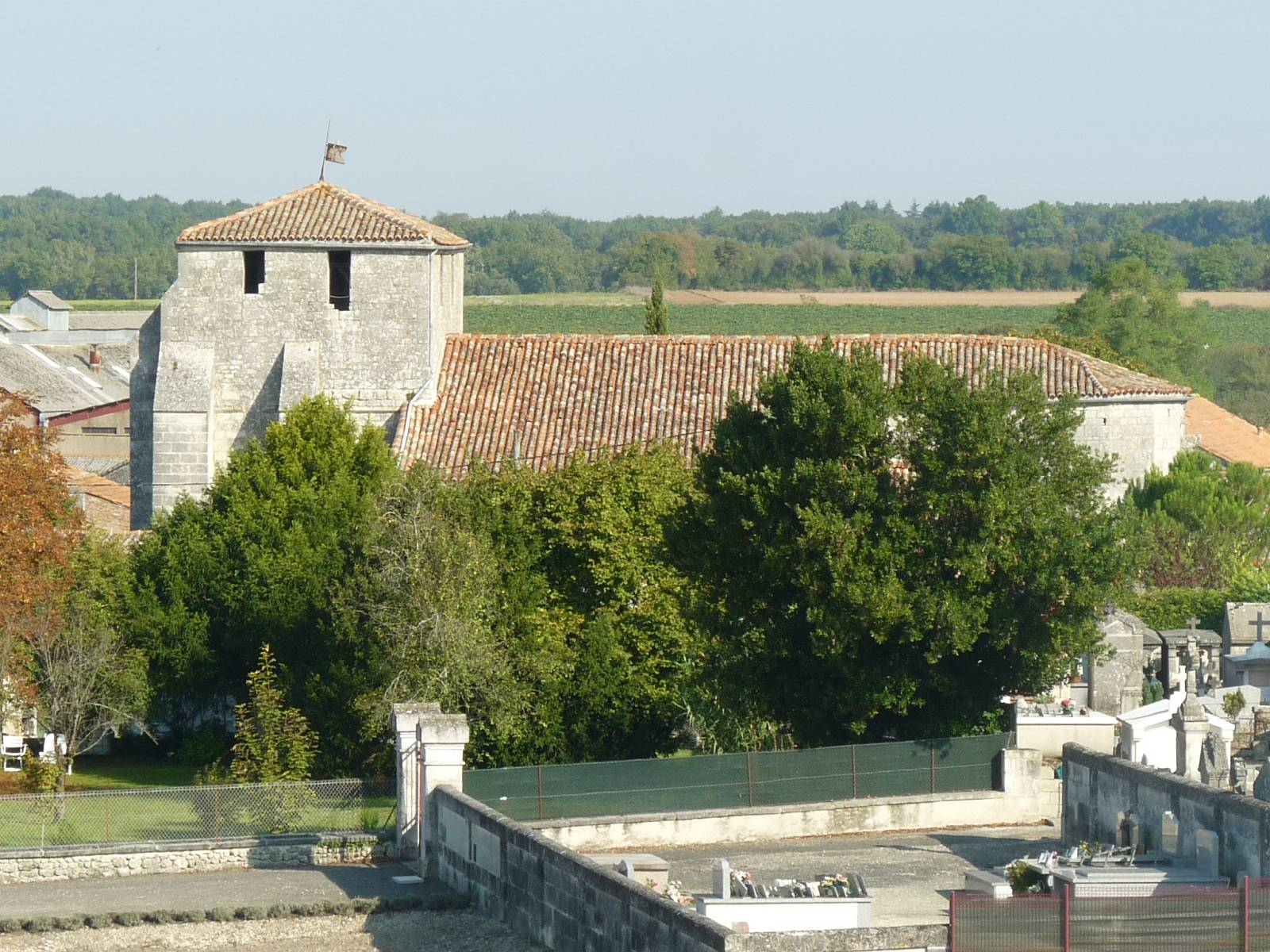 church of Fouquebrune, Charente, SW France